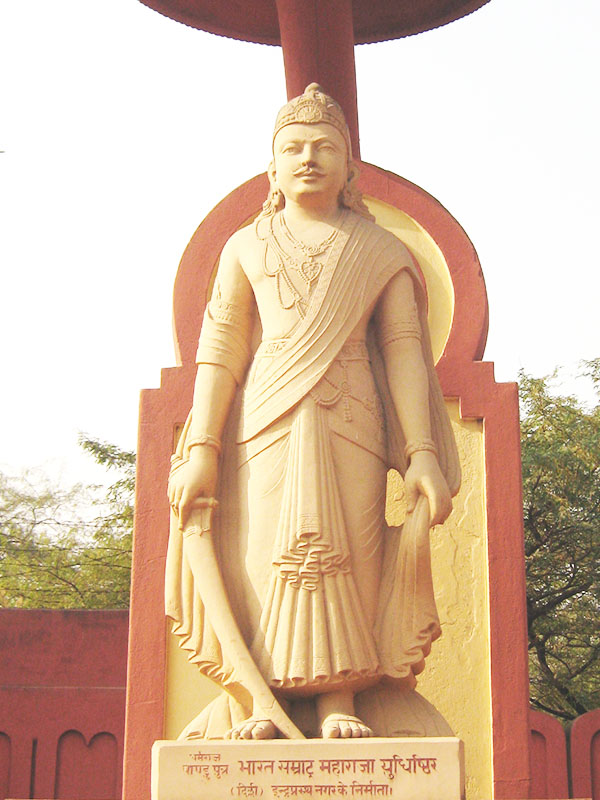 Statue of Yudhishthira at Birla mandir